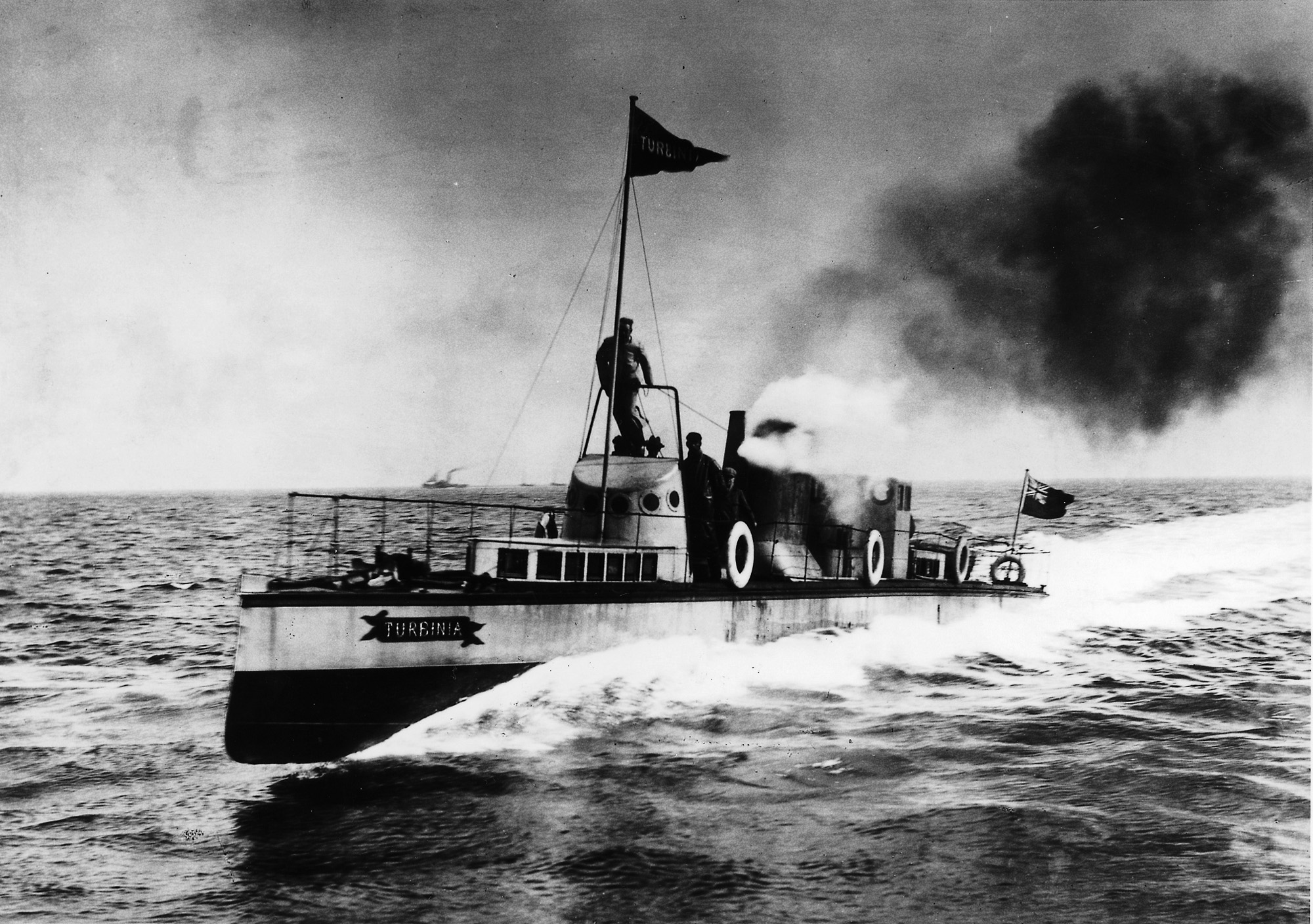 Charles Algernon Parsons' steam turbine-powered Turbinia at speed, photographed in 1897/1898. The identity of the man on the conning tower is examined here.